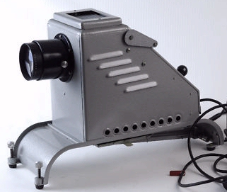 This is an episcope built by German optics manufacturer Heinrich Malinski, Leipzig C1. It is equiped with a Rathenower Optische Werke Epirectim projection objective (1:4/340).